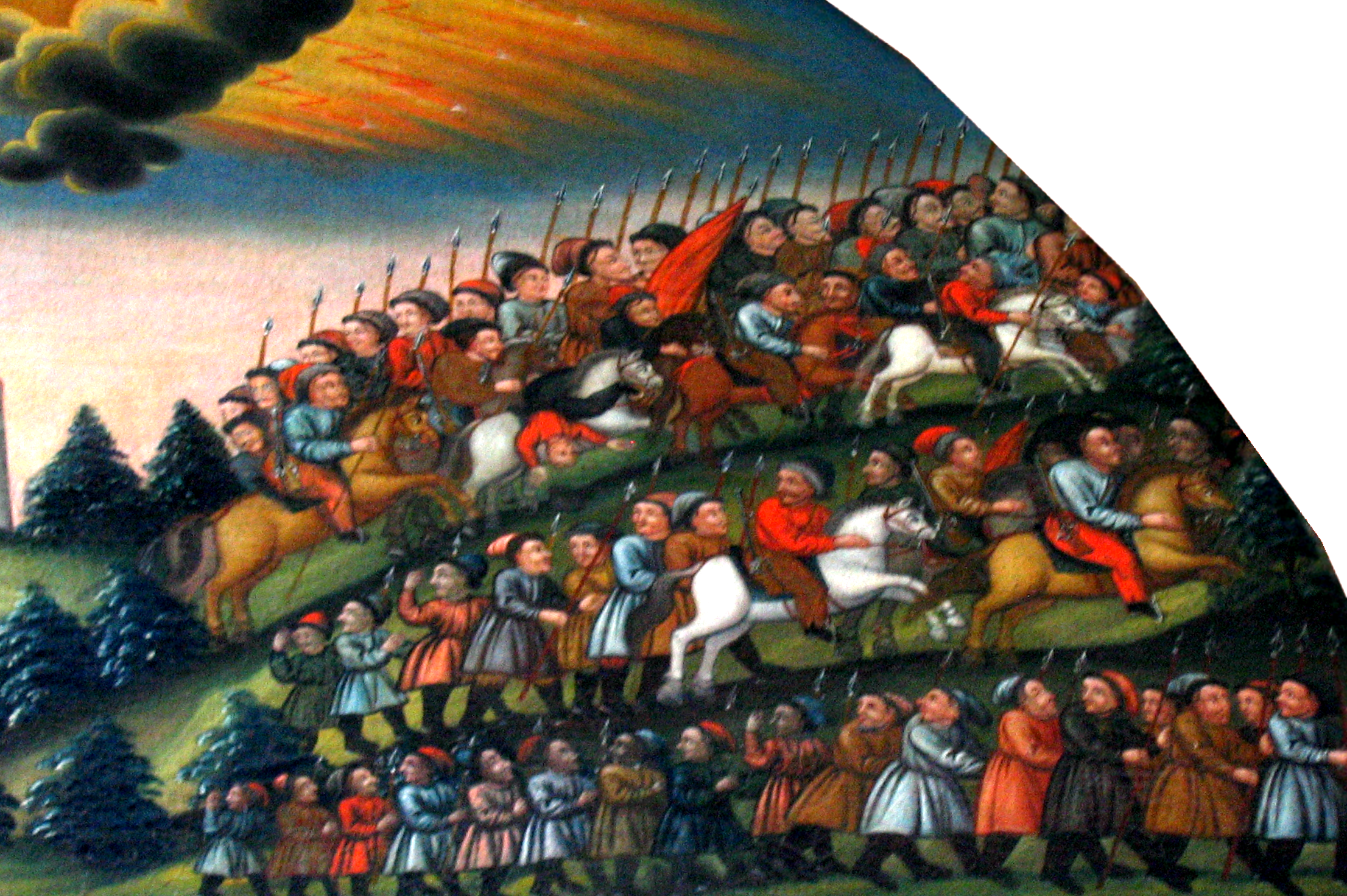 Detail from File:Lublin cloister painting.JPG